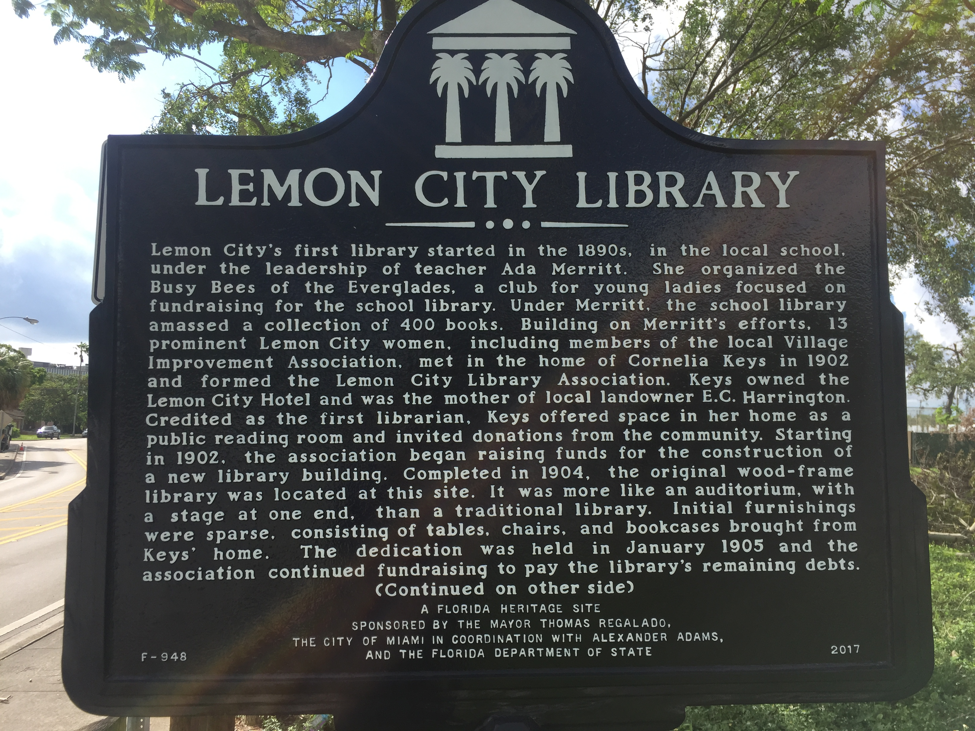 The Lemon City Library plaque commemorating the location of the original library. The site is currently adjacent to the where the current library is located.